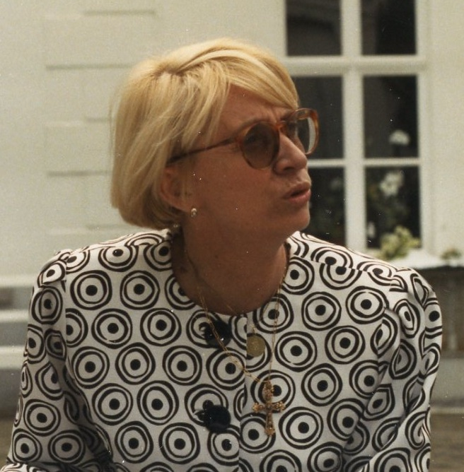 Portrait of Françoise Mallet-Joris. I took this photo in 1988.